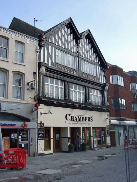 Chambers Bar, Lounge & Grill Until recently this was The Litten Tree 146748 and the present name is apparently a reversion as I am told it was once Chambers Coffee House.